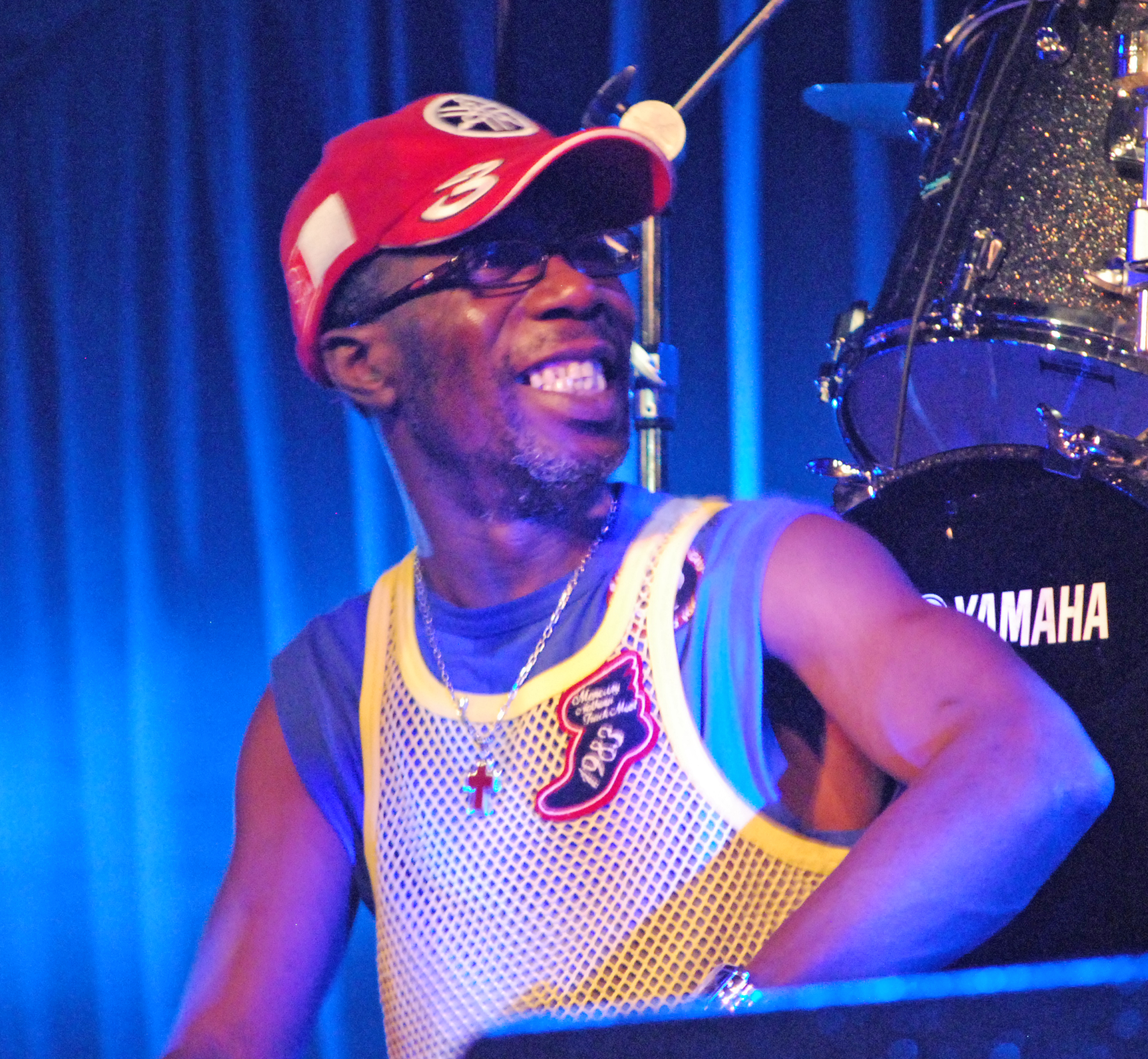 Paco Sery at a concert with the Zawinul Syndicate in memoriam Joe Zawinul, Treibhaus Innsbruck 2009